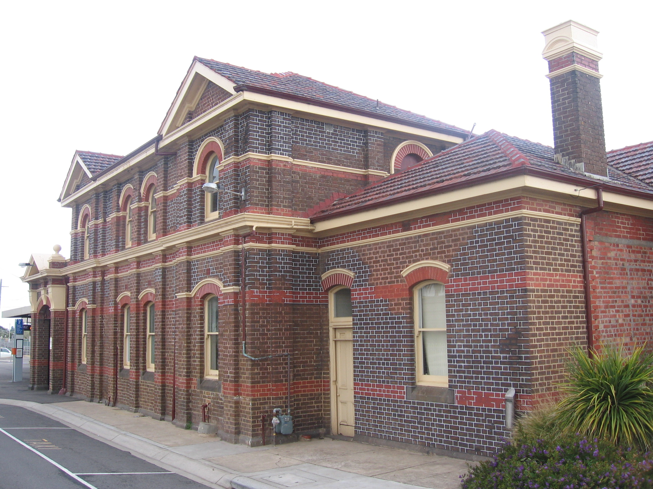 Station building at Warrnambool railway station, Victoria